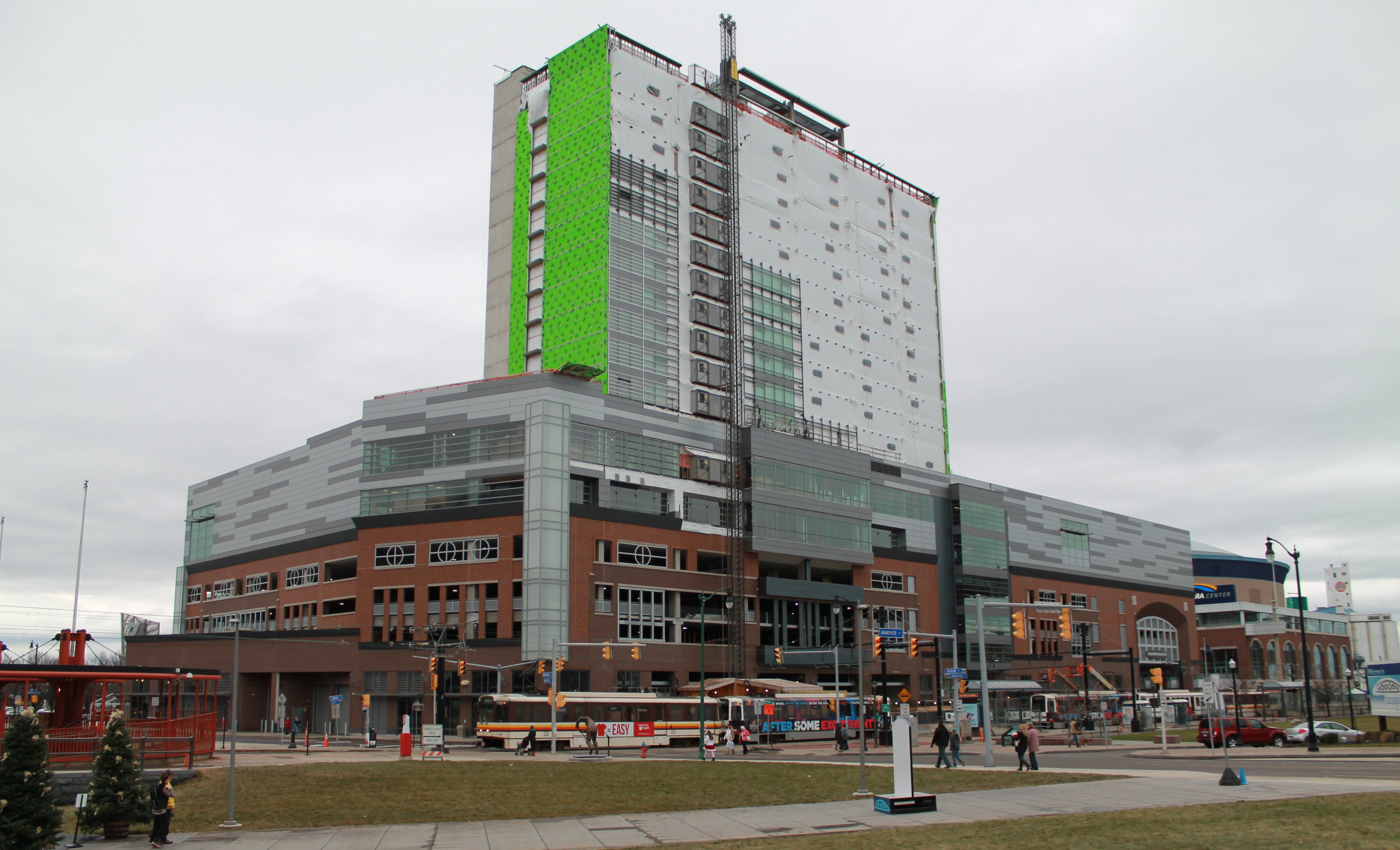 HarborCenter, Webster Block, Buffalo, NY